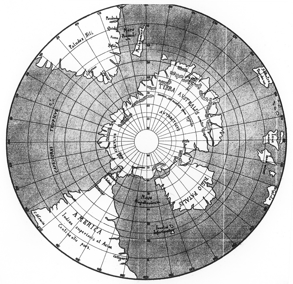 TERRA AVSTRALIS recenter inventa sed nondum plene cognita (“Terra Australis, recently discovered but not yet fully known”). Johannes Schöner, globe of 1533: southern hemisphere.